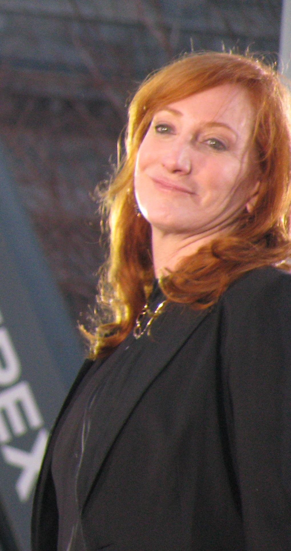 Patti Scialfa cropped from picture of her performing with her husband (Bruce Springsteen) For title image